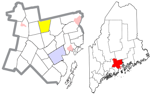 Map of the divisions of Waldo County, Maine, United States, with the town of Jackson highlighted in yellow. The city of Belfast is light blue; other towns are white; and pink areas are census-designated places within towns.